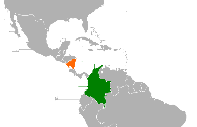 Image of map denoting Colombia and Nicaragua